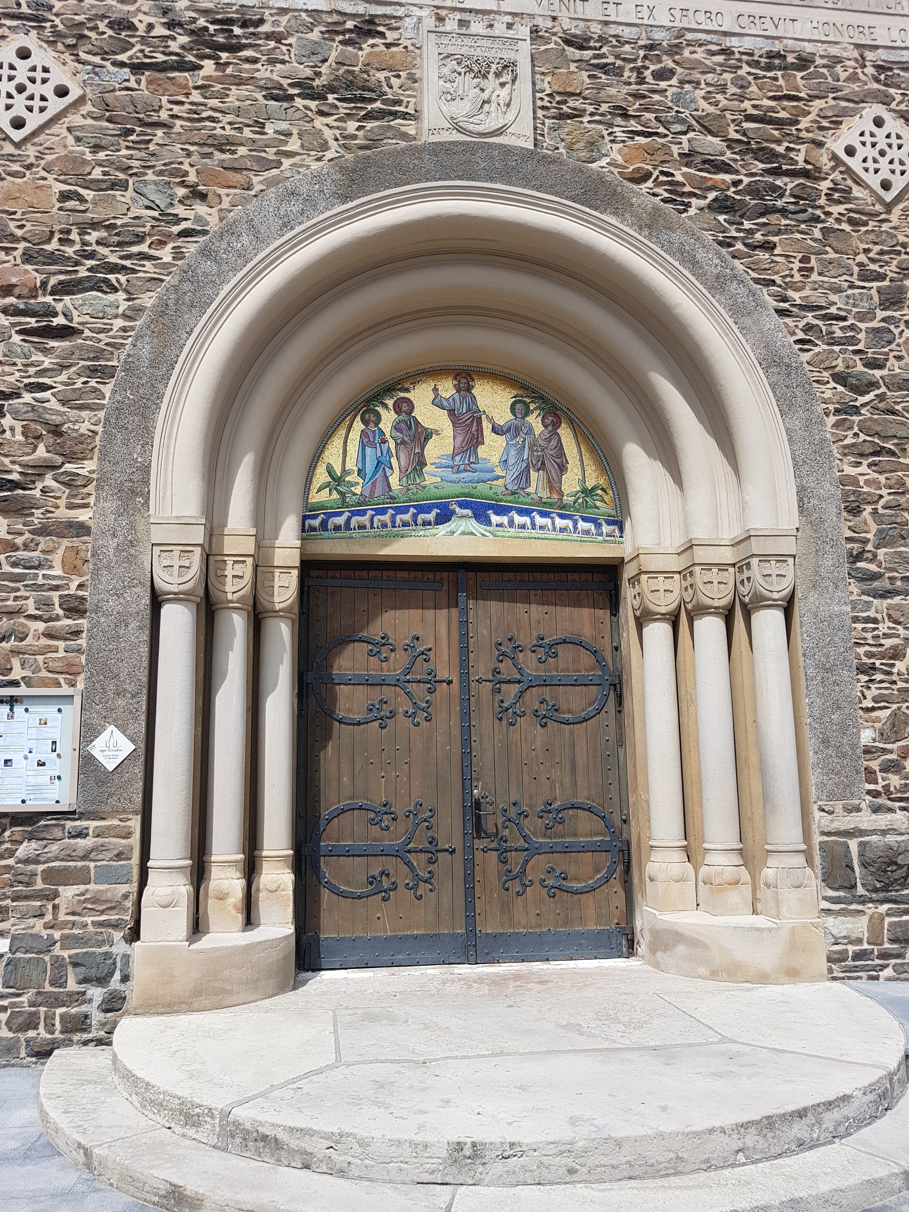 Roman Catholic Church in Clervaux (also: Church of St. Cosmas and Damian, lux .: Kierch zu Klierf; french: Église Saints-Côme-et-Damien, german: Kirche in Clerf or Kirche St. Cosmas und Damian) in the Montée de l'église (street) in the municipality of Clervaux' (lux.: Klierf